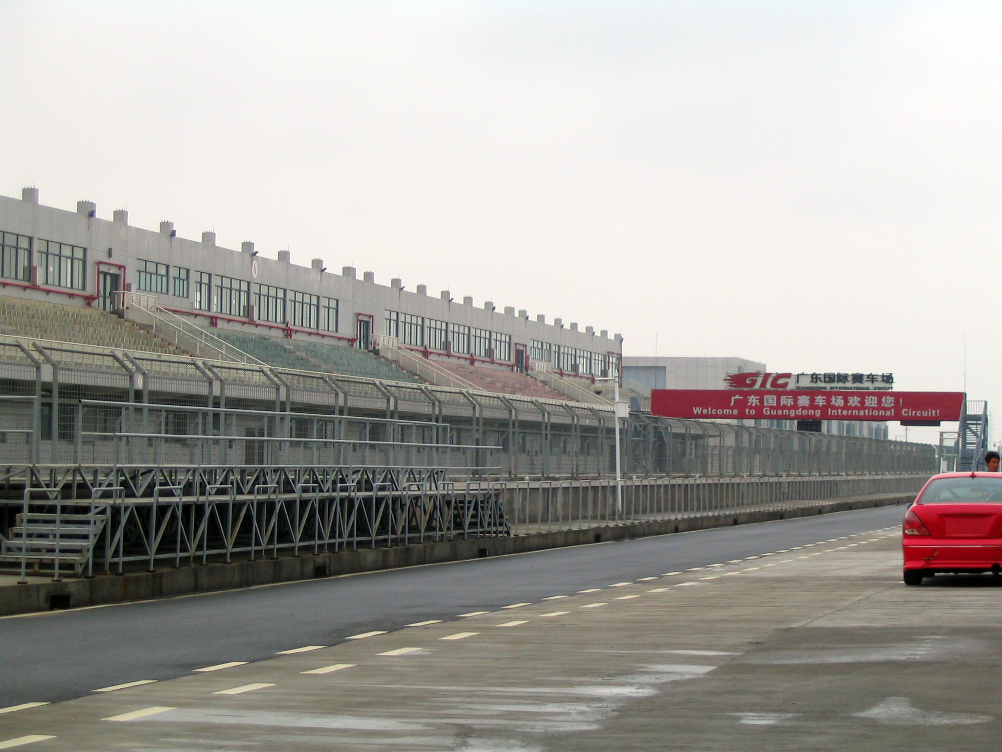 Guangdong International Circuit's pit straight